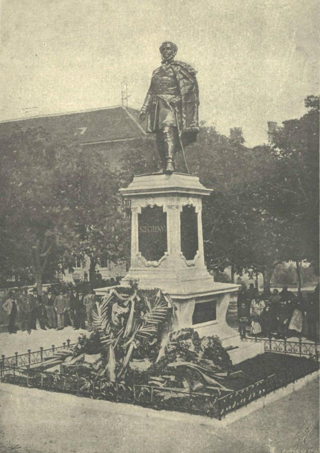 István Széchenyi's statue in Soporon